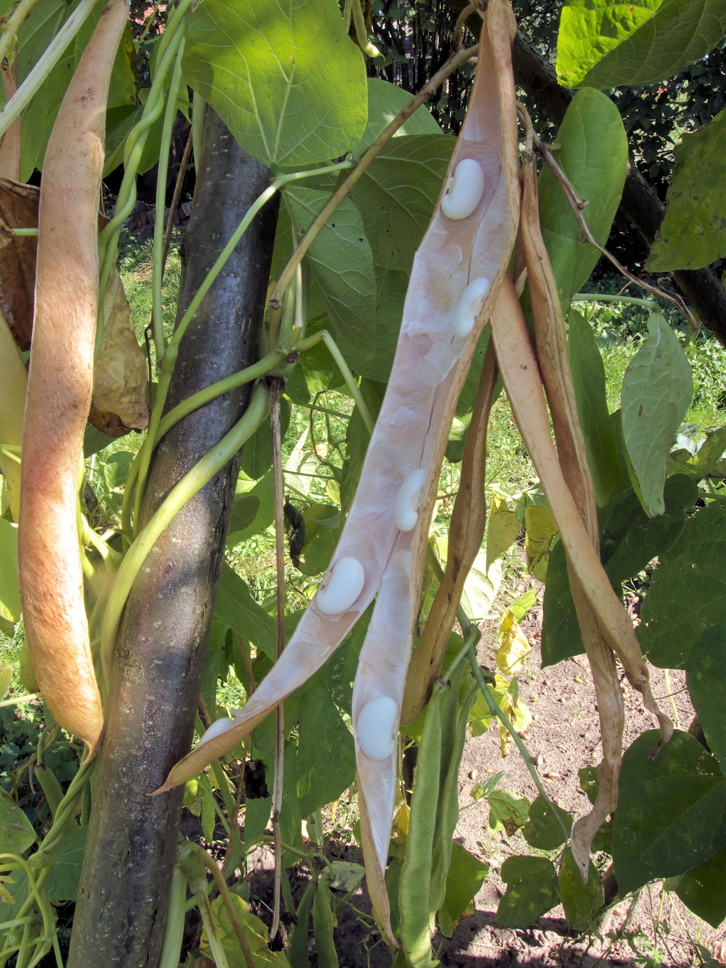 Phaseolus coccineus ripe seedpod